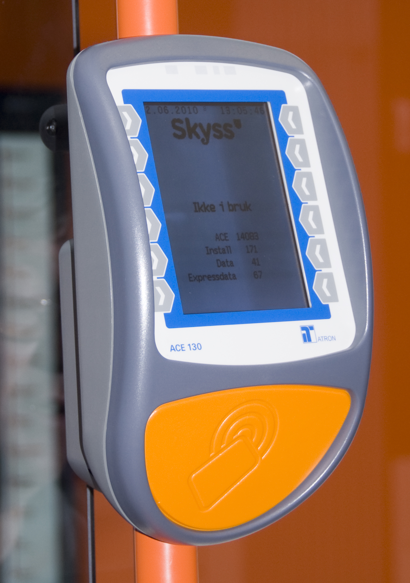 A Skyss ticket validator on board the Bergen Light Rail.